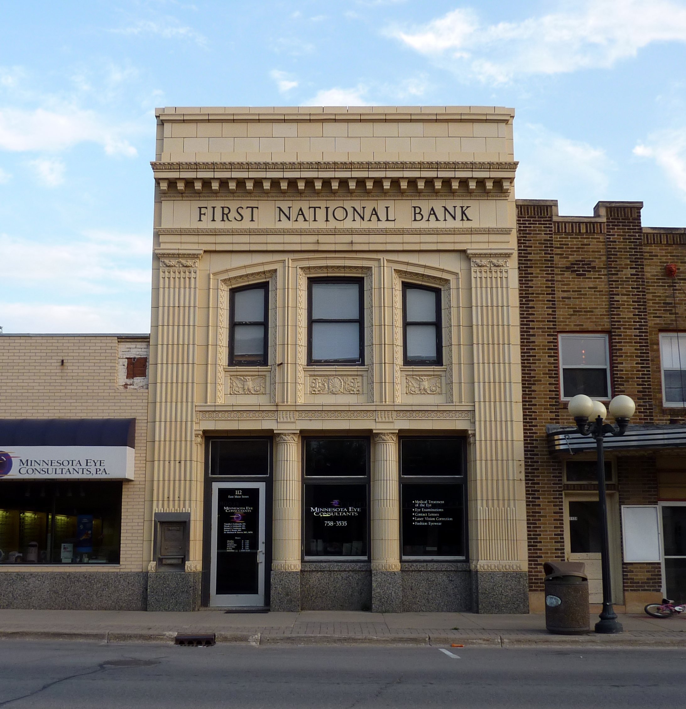 First National Bank, New Prague, Minnesota, USA.